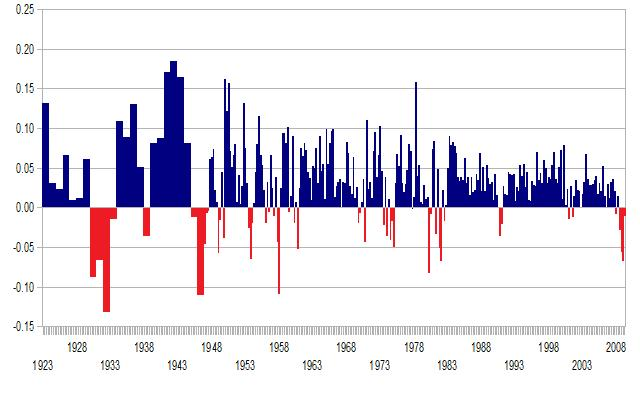 Annual United States GDP growth from 1923 to 2009.